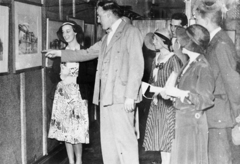 William Bustard at his first solo exhibition in Brisbane, October 1931 William Bustard describing his painting to Daphne Mayo?, left and Vida Lahey right. This was Bustard's first solo exhibition at the Griffith Brothers Tea Rooms in Brisbane. The exhibition was managed by Jeanettie Sheldon who conducted the Gainsborough Gallery from 1921 to 1939 (Description supplied with photograph.).